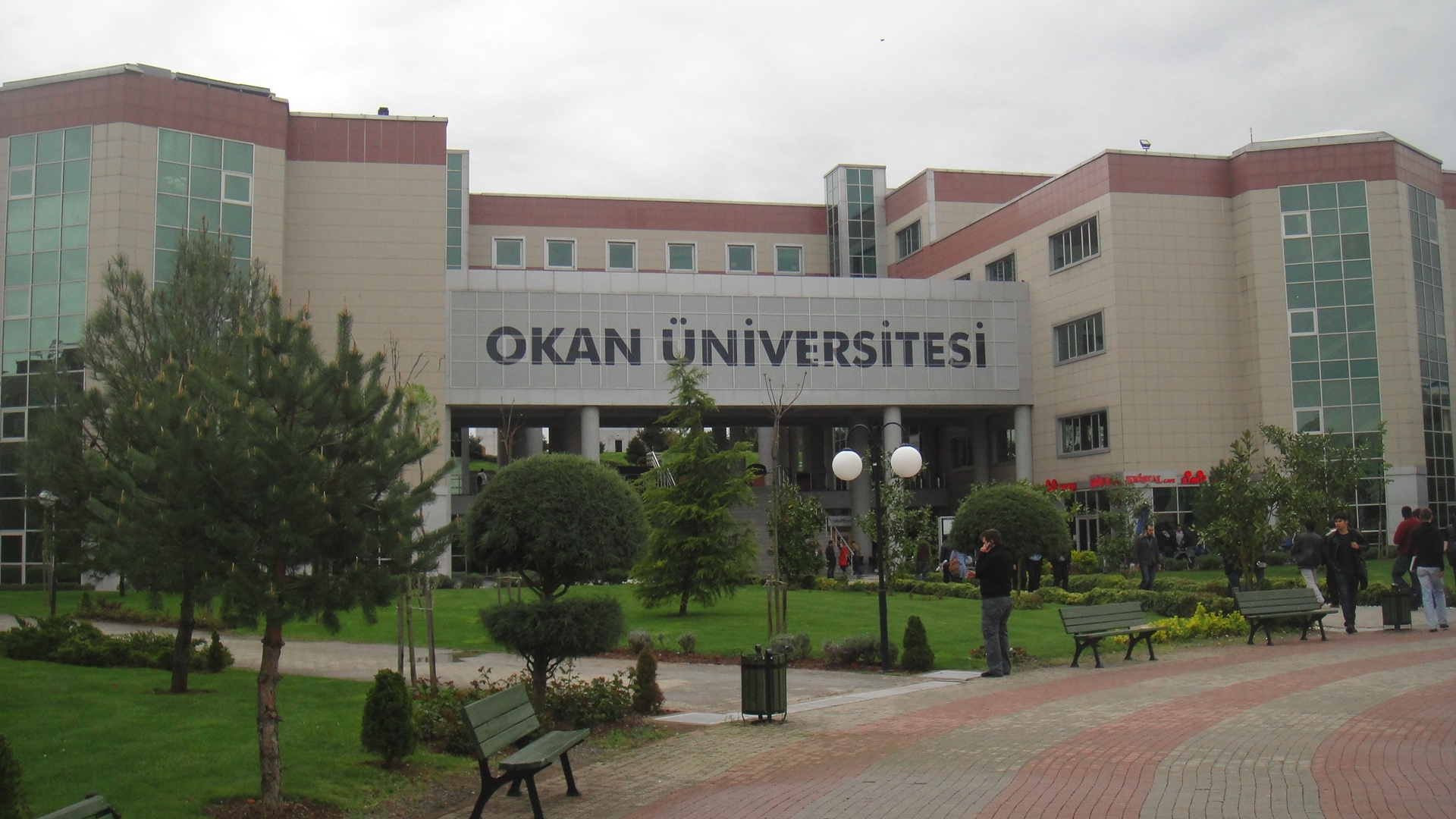 Okan university Tuzla-Istanbul, Turkey